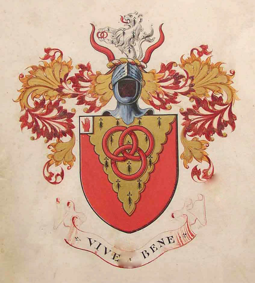 Mander coat of arms, full armorial achievement